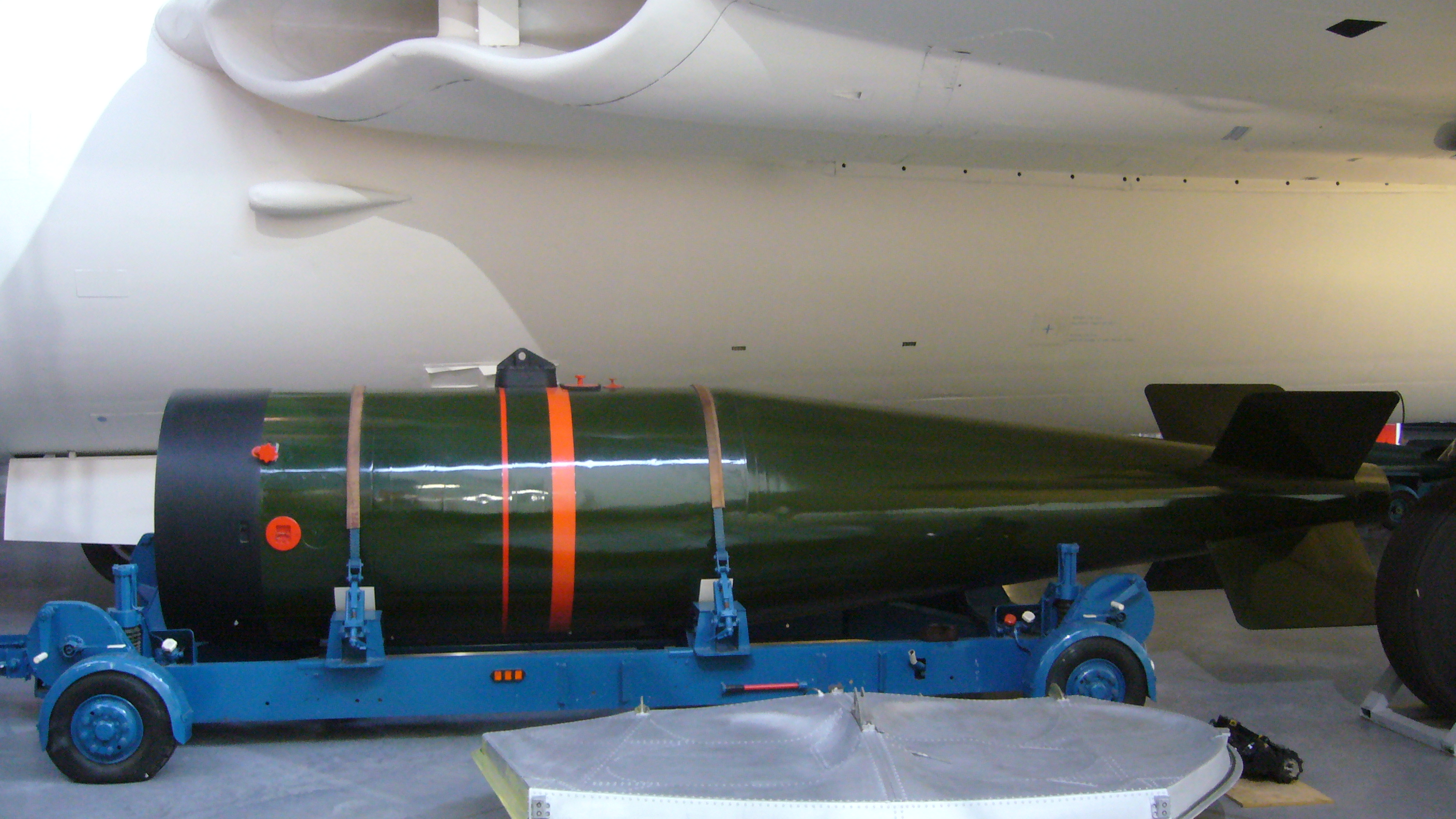 Side view of a British "Yellow Sun" nuclear bomb, photographed under the wing of a Vickers Valiant bomber at RAF Cosford (Aerospace Museum), UK.